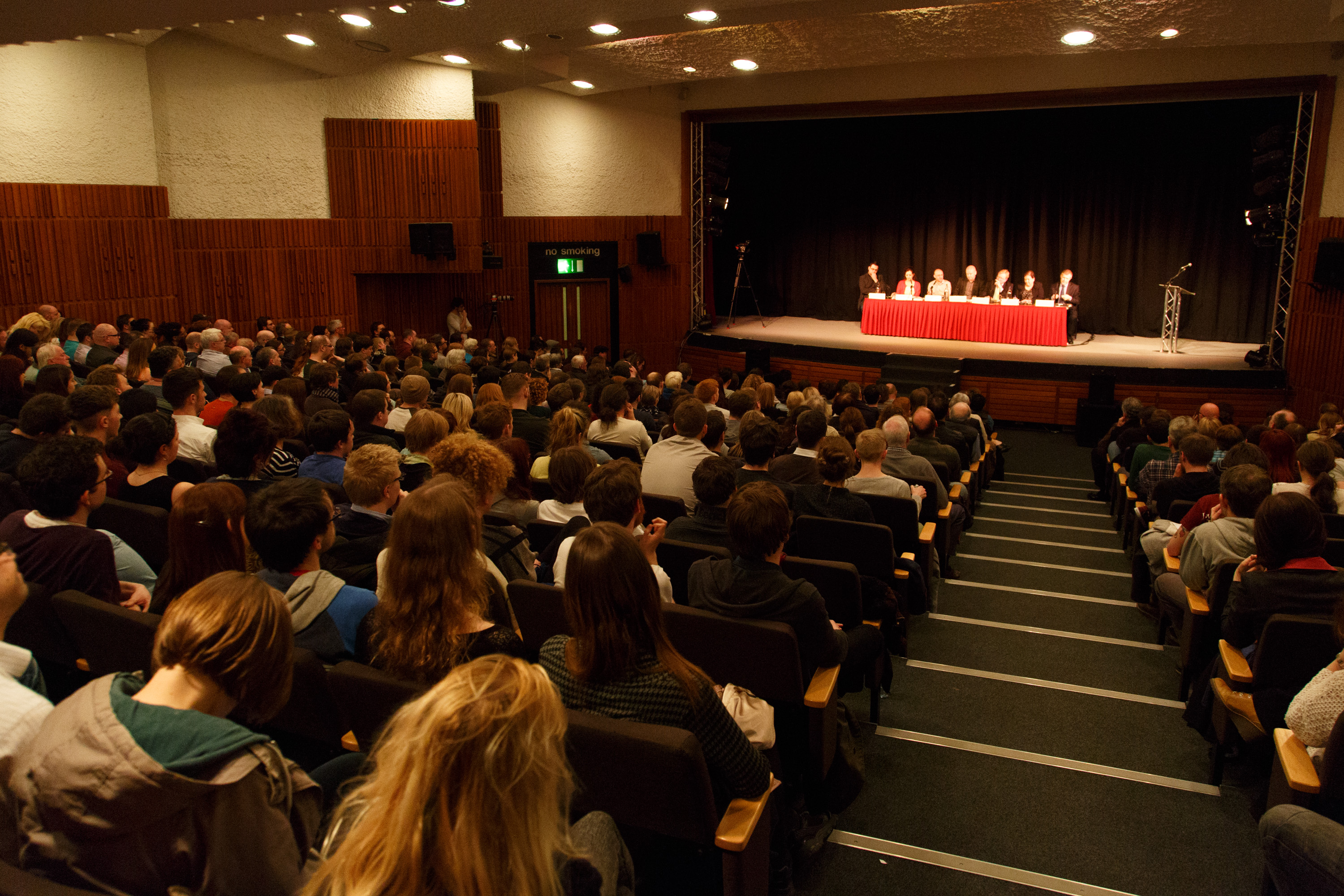 An image from the rear of the auditorium in which Glasgow Skeptics hosted the largest debate on Scottish Independence as of April 2014.